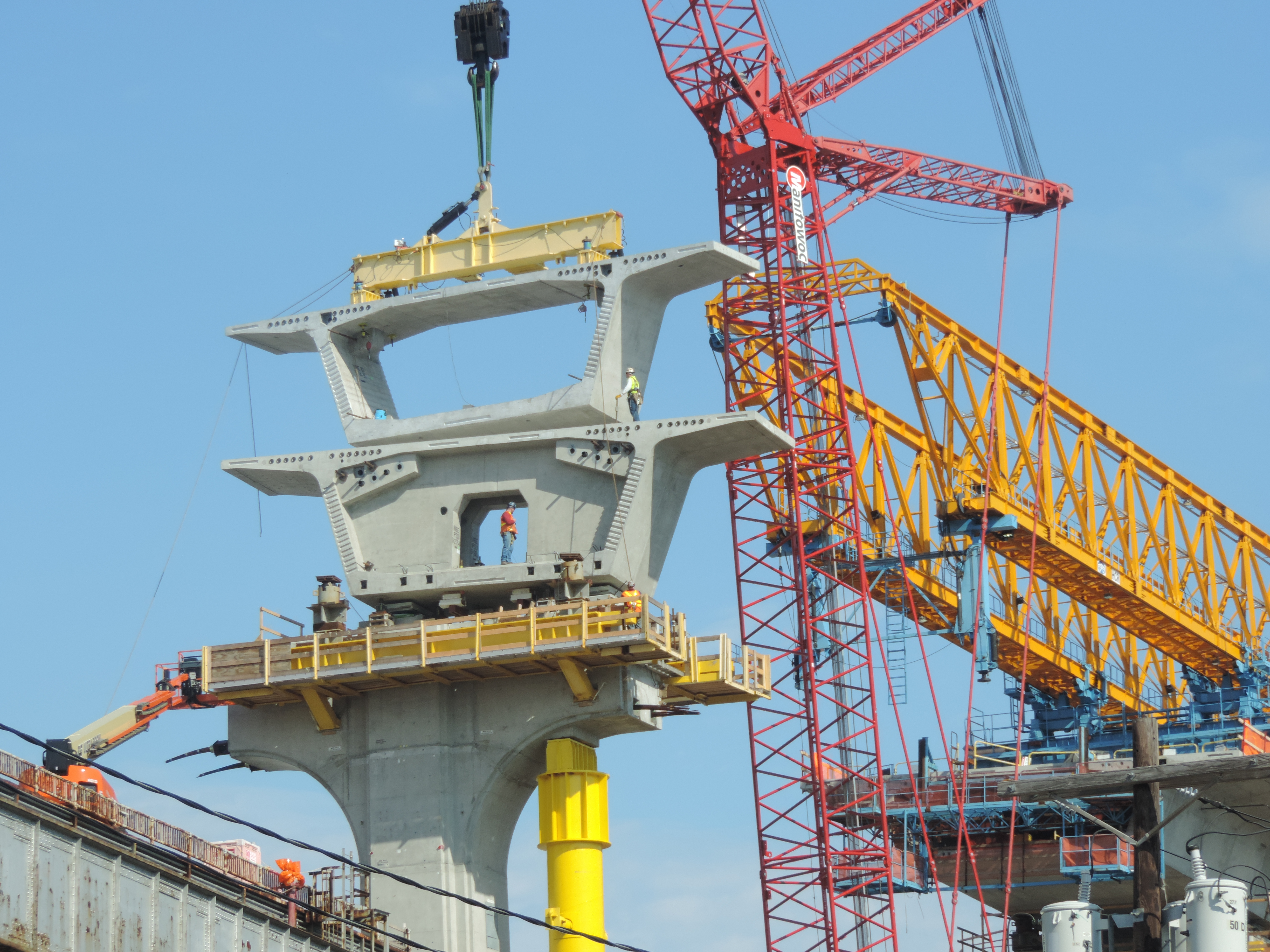 Looking north as crane lifts a new section on a sunny midday.